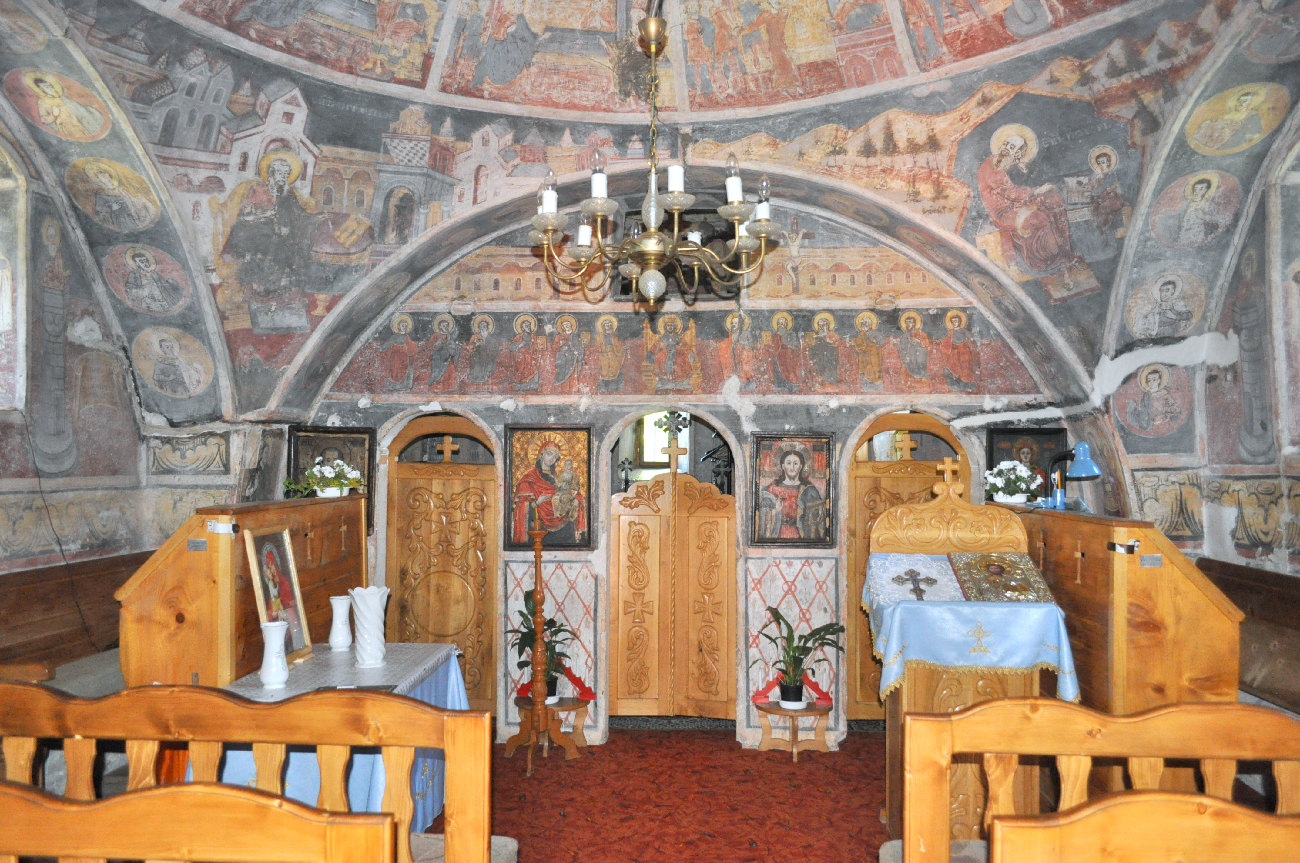 Saint Paraskeva's church in Mesentea, Alba county, Romania